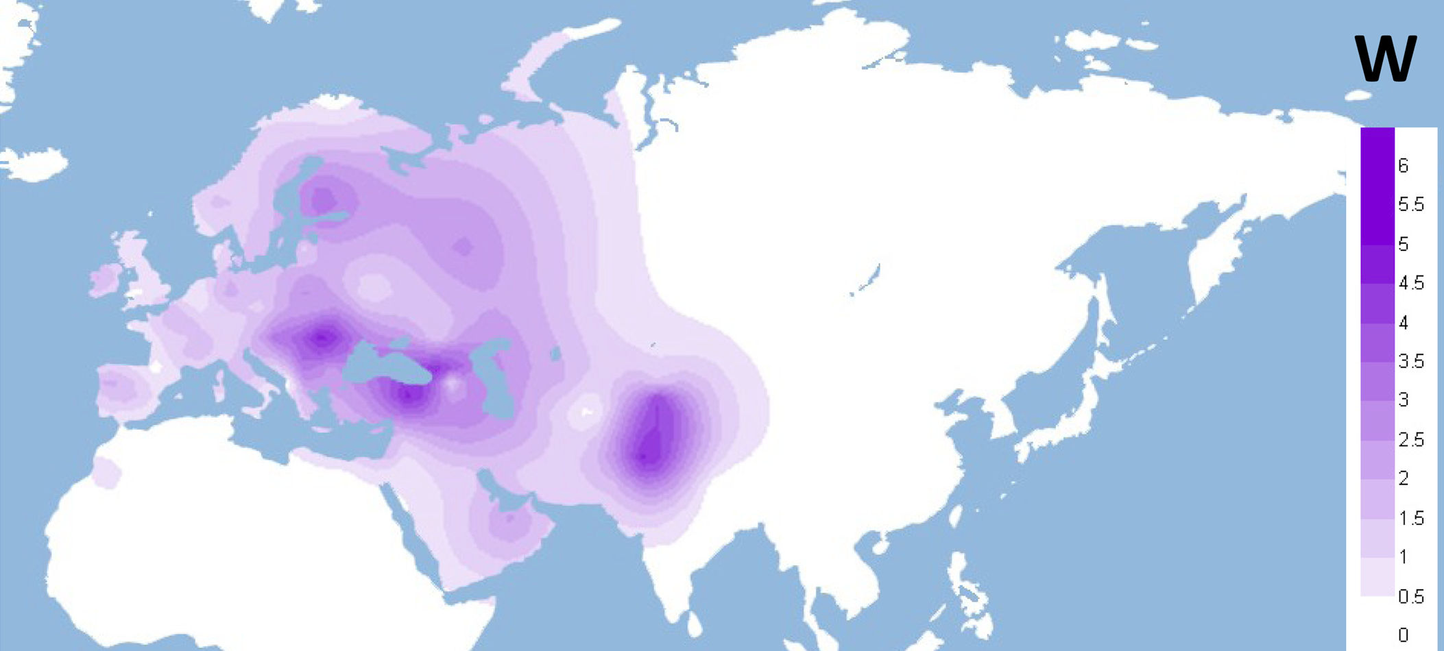 Spatial frequency distribution of mtDNA haplogroup W. Frequency scale is %.